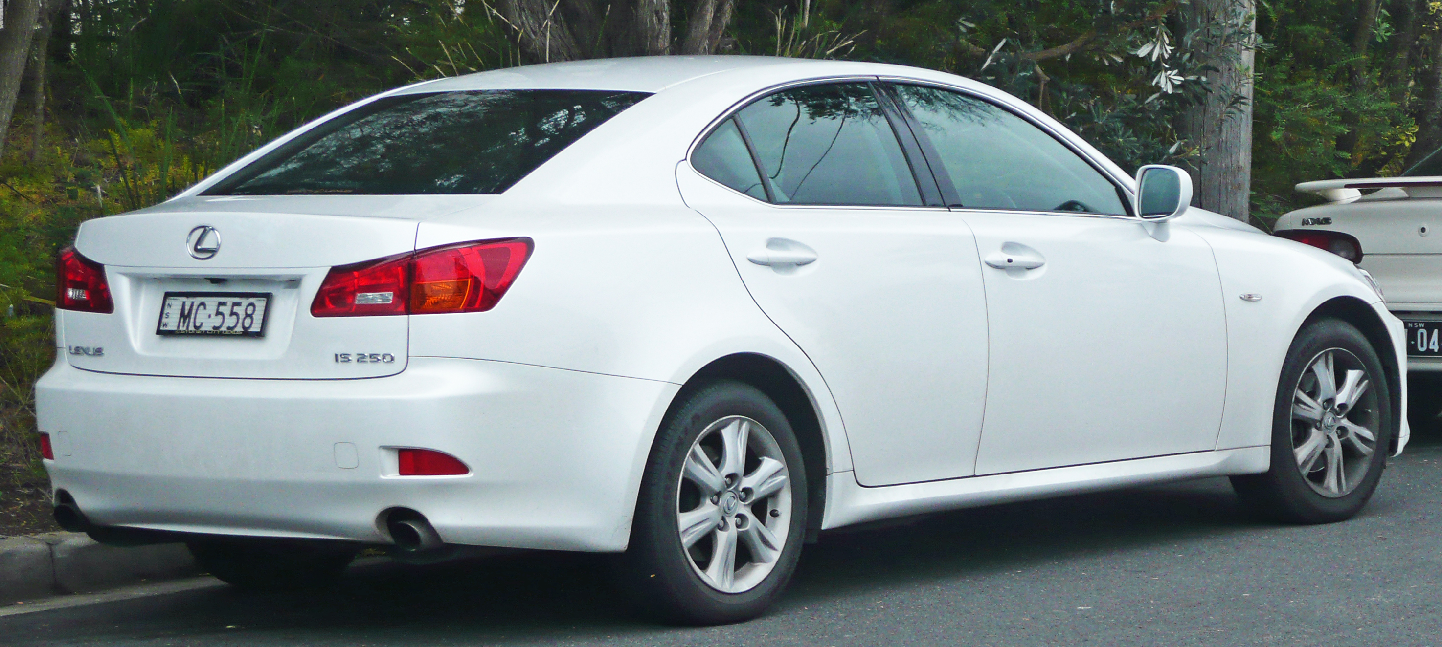 2005–2008 Lexus IS 250 (GSE20R) sedan. Photographed in Cronulla, New South Wales, Australia.